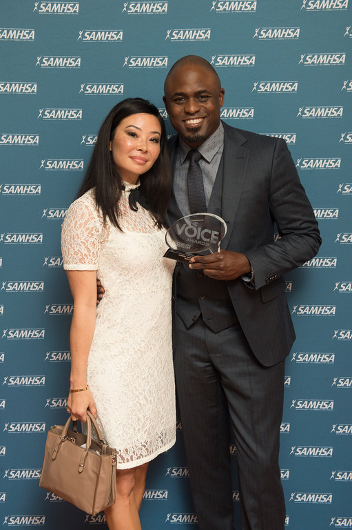 Wayne Brady poses with Mandie Taketa after she presented him with the SAMHSA Special Recognition Award.